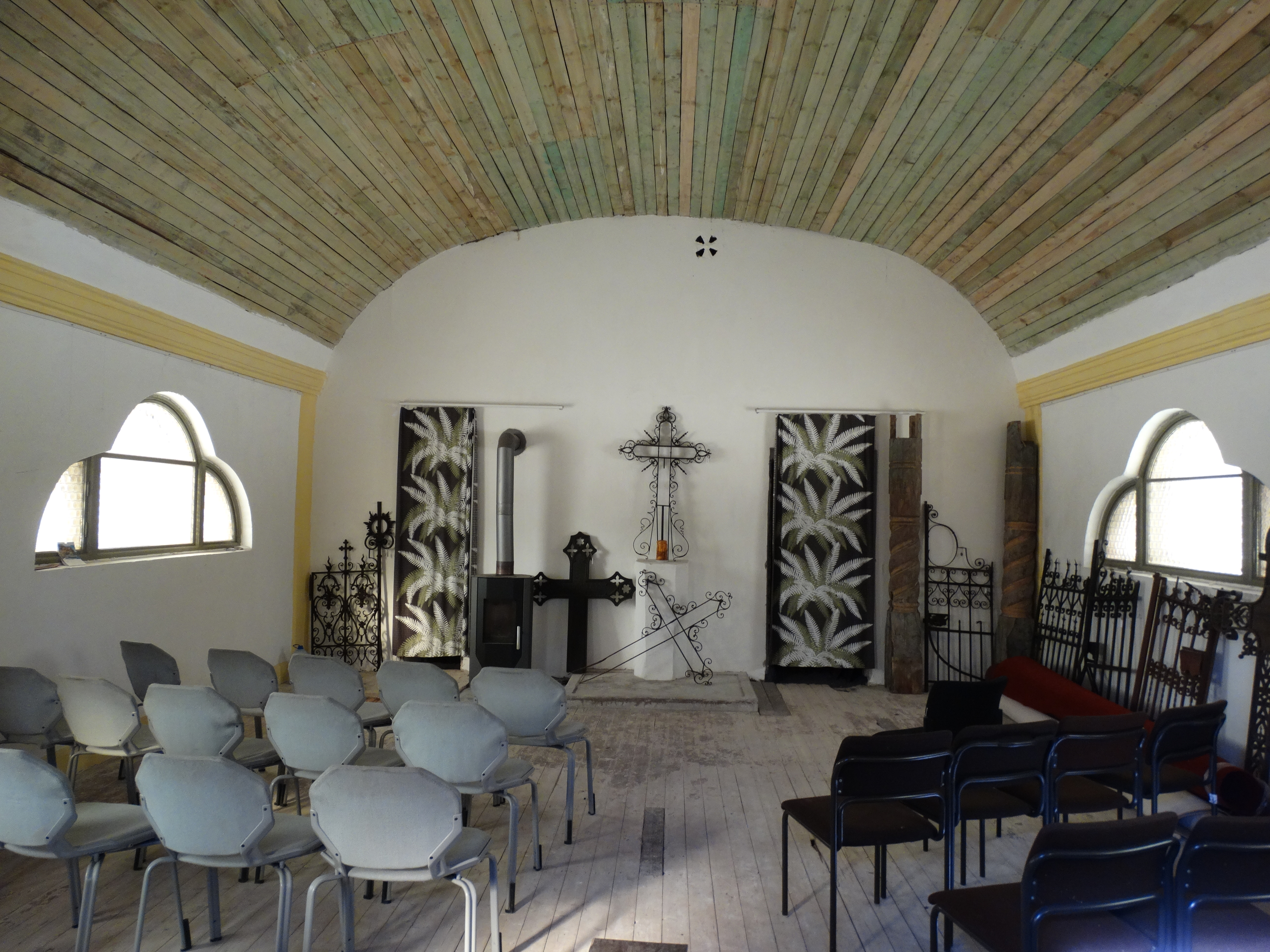 Evangelical cemetery chapel, Šilutė, Lithuania